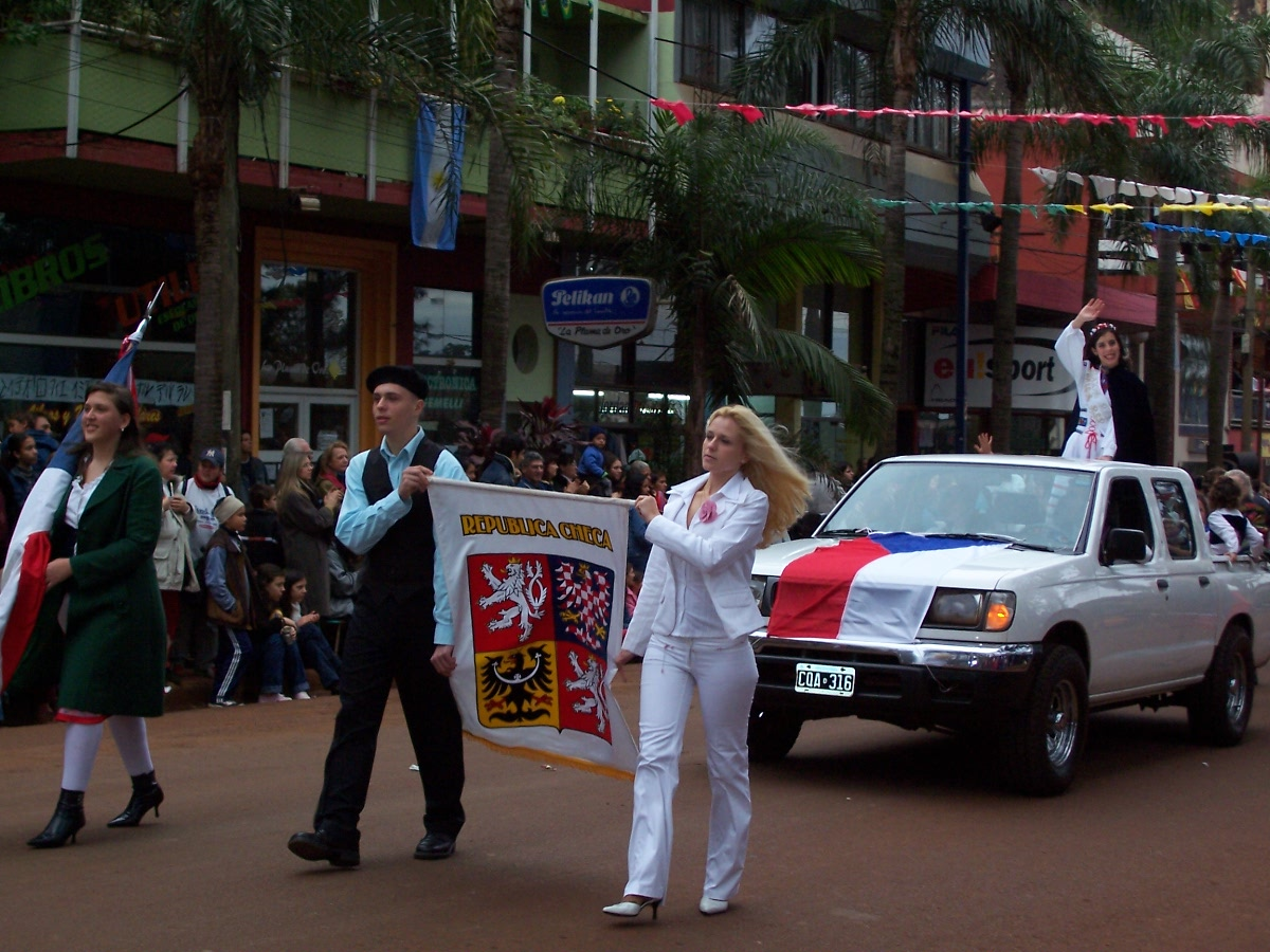 The Czech colectivity, during the inaugural parade of XXVI Immigrant's National Festival, in Oberá, Misiones, Argentina.